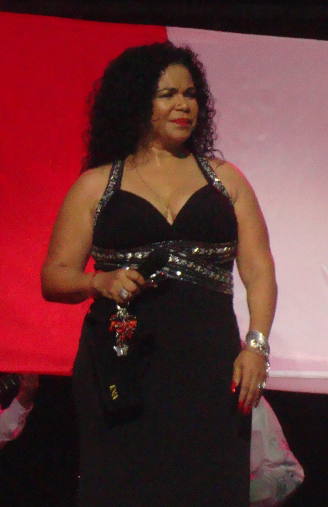 Eva Ayllon at the Sydney Opera House